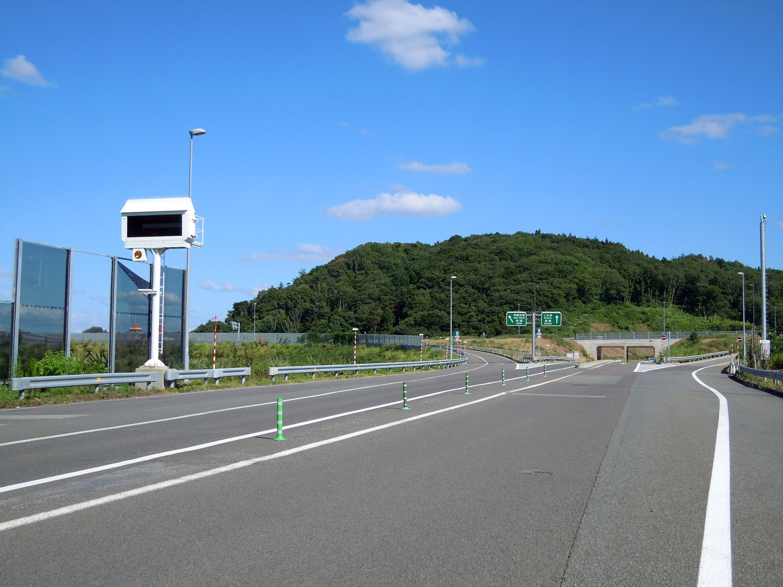 Iwaki Interchange on Nihonkai-Tohoku Expressway, in Yurihonjo City, Akita Prefecture, Japan